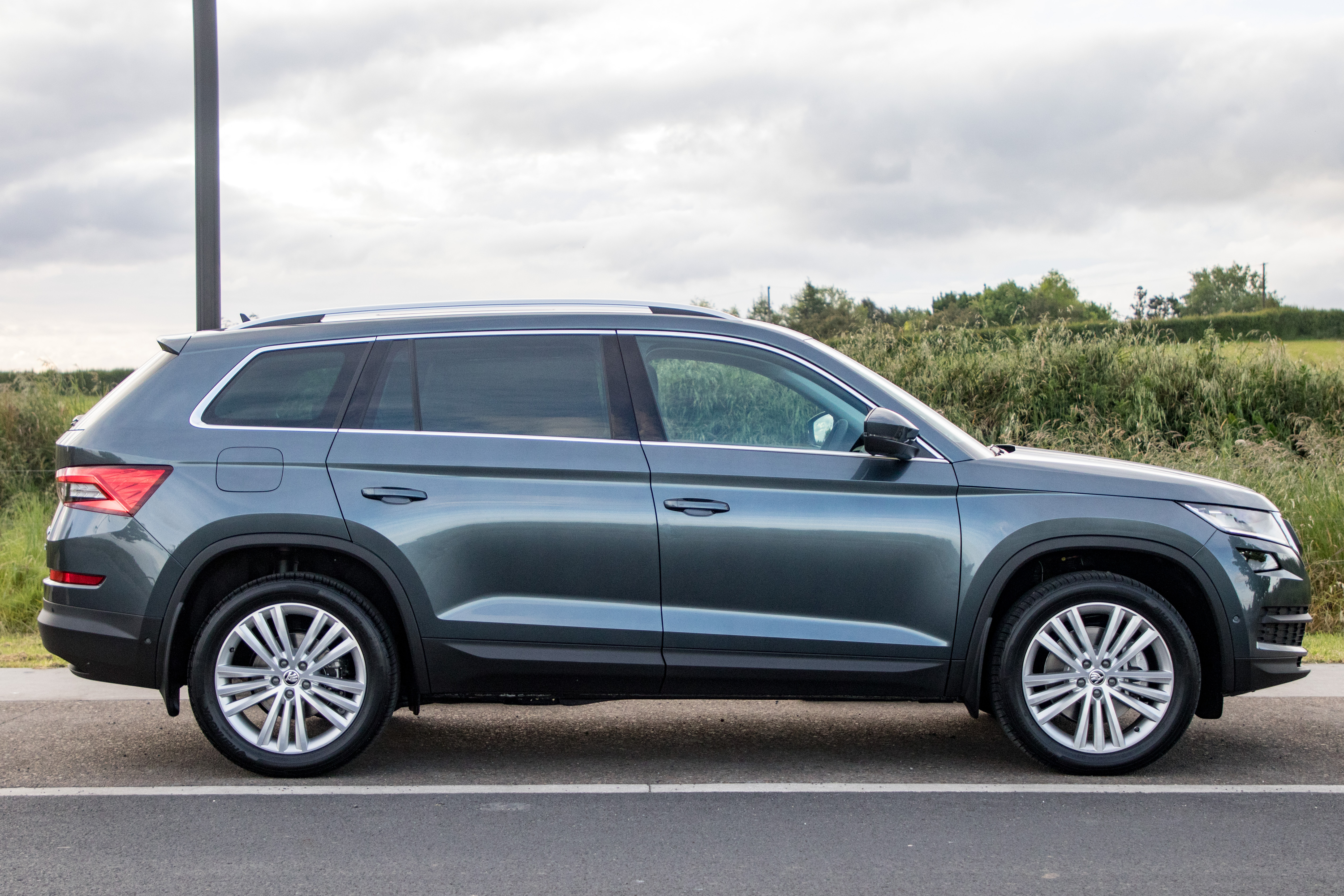 Side profile of a 2017 Skoda Kodiaq